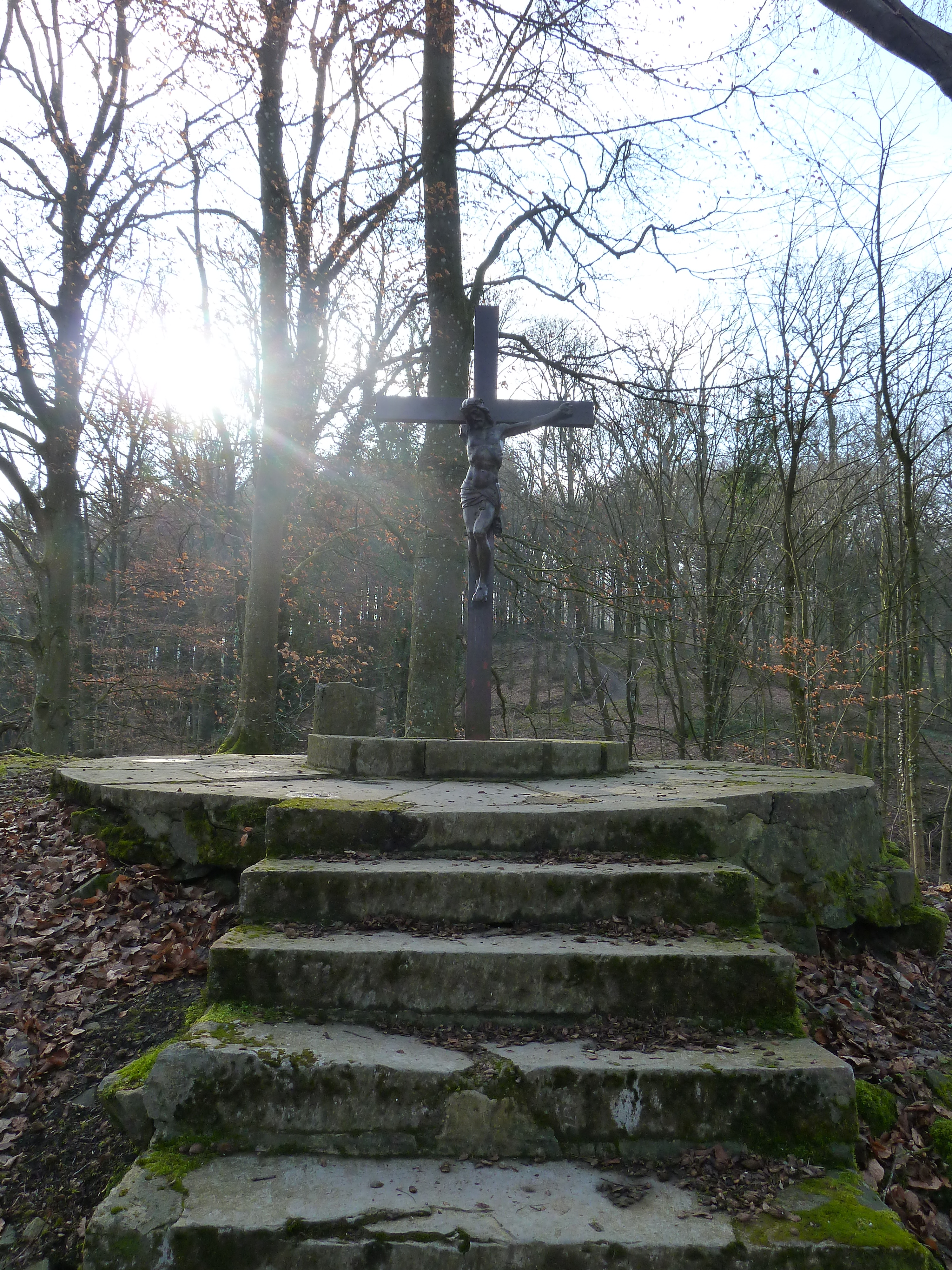 Hermitage and chapel of Saint-Thibaut, Marcourt, Rendeux, Belgium